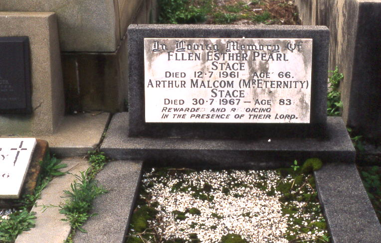 Grave of Arthur Stace ("Mr Eternity") and his wife Ellen, Eastern Suburbs Memorial Park, Matraville, Sydney